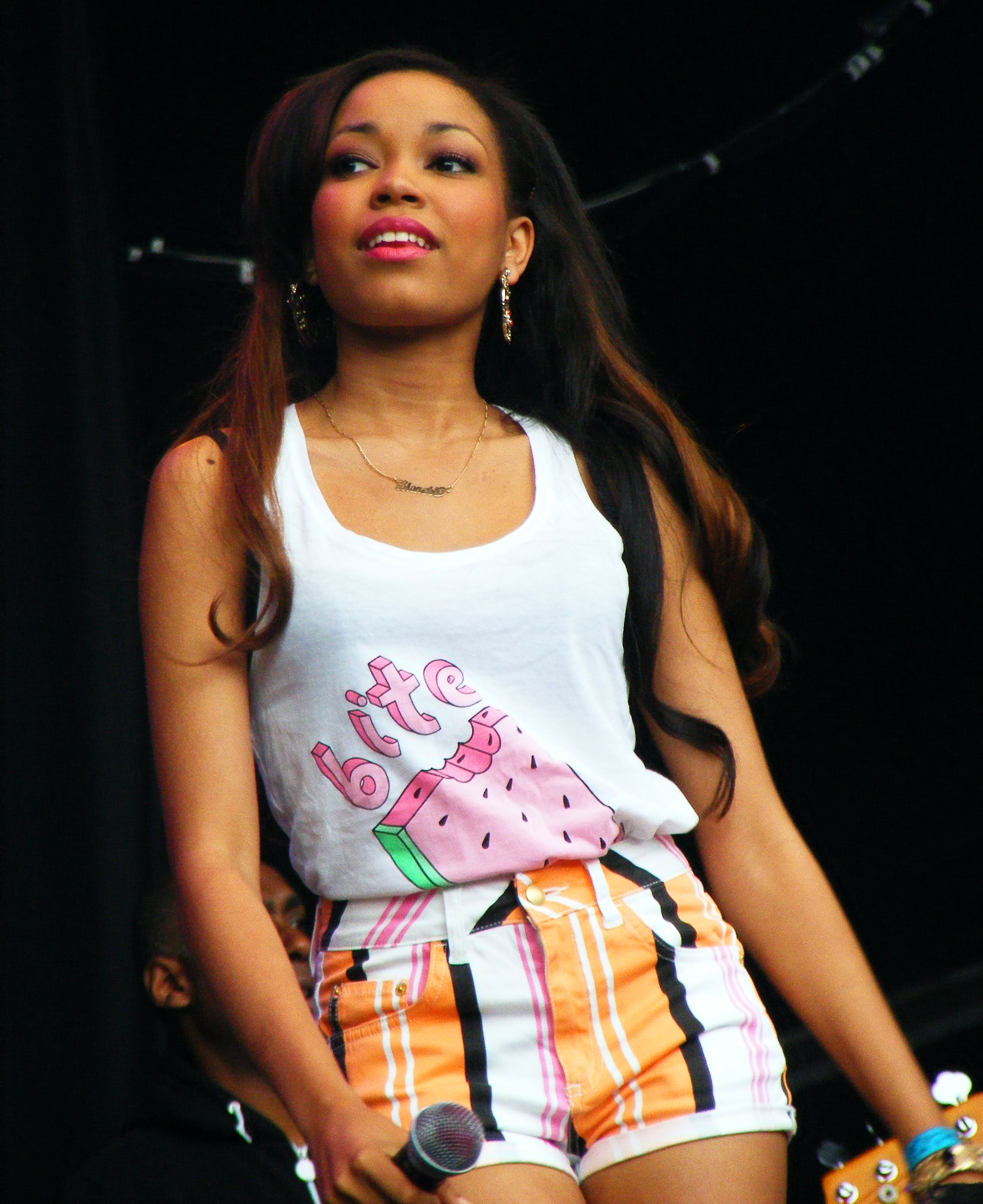 Dionne Bromfield performing at Bingley Music Live on Saturday the 3rd of September 2011